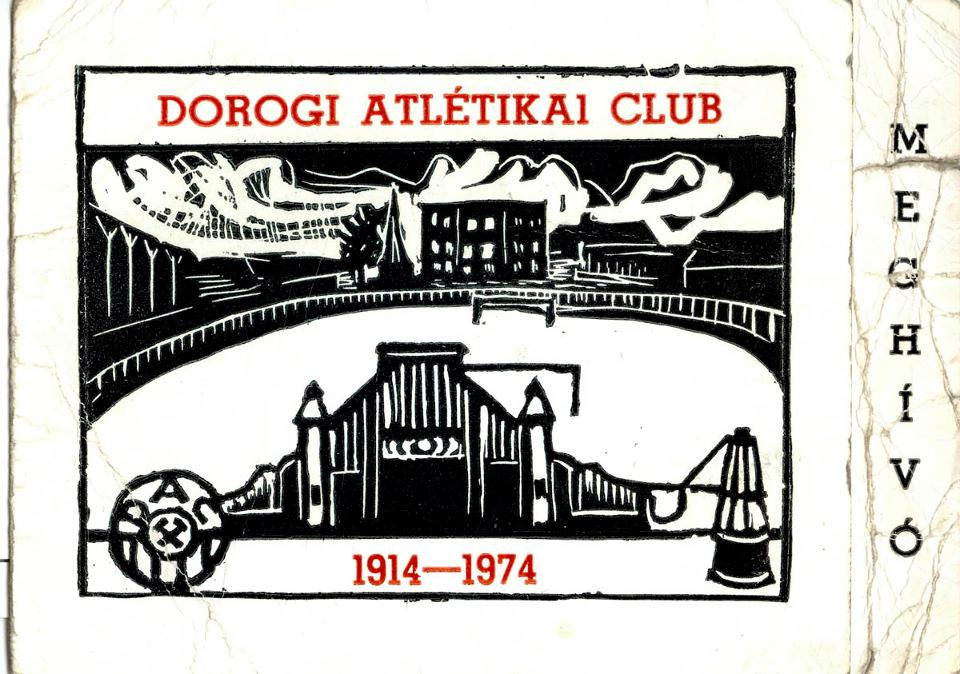 60th anniversary invitation card to celebration of FC Dorog